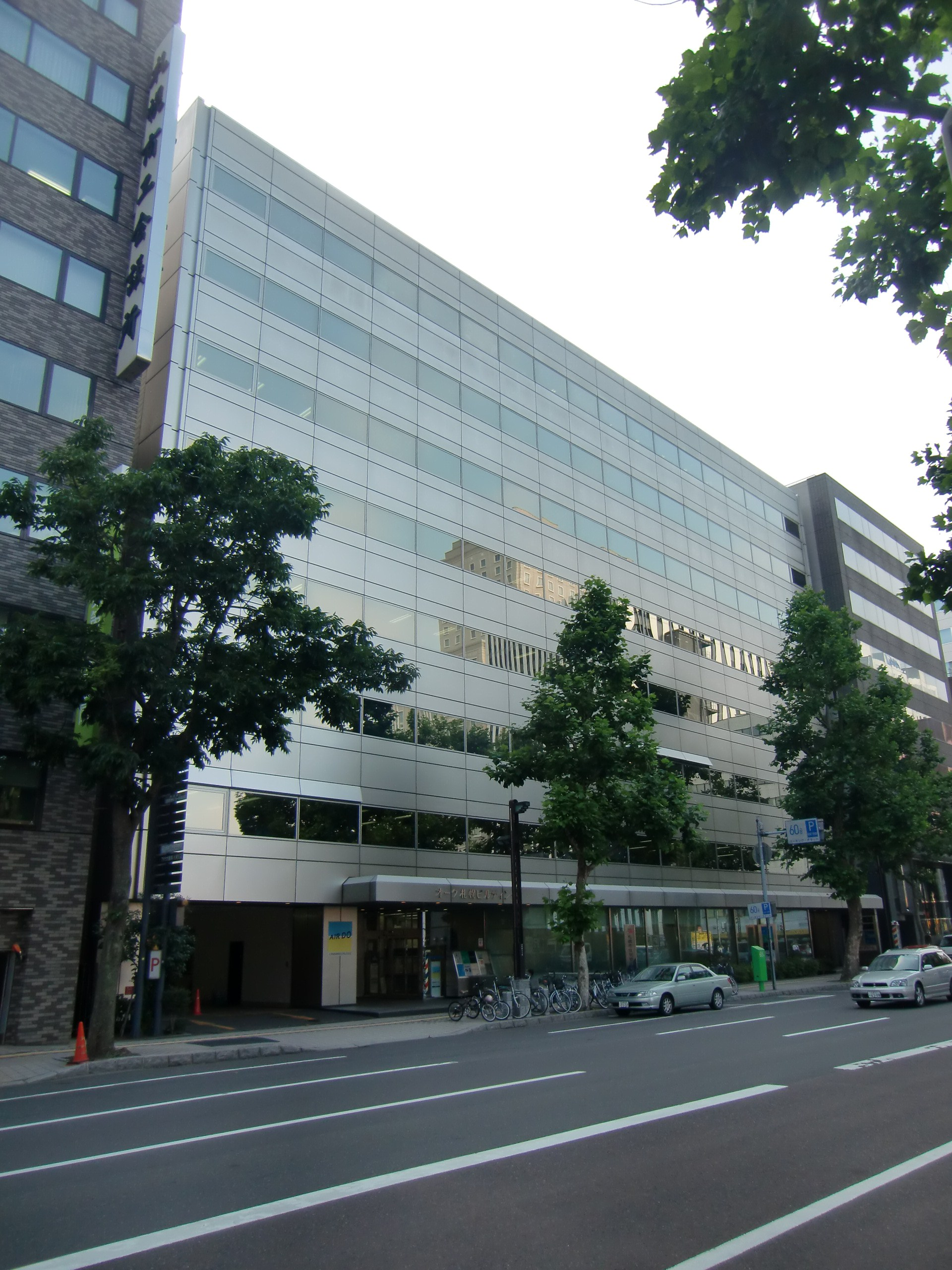 Oak Sapporo Building / AIRDO Co.,Ltd.(formerly Hokkaido International Airlines) headquarters(7th floor) - Chuo-ku, Sapporo, Hokkaido, Japan